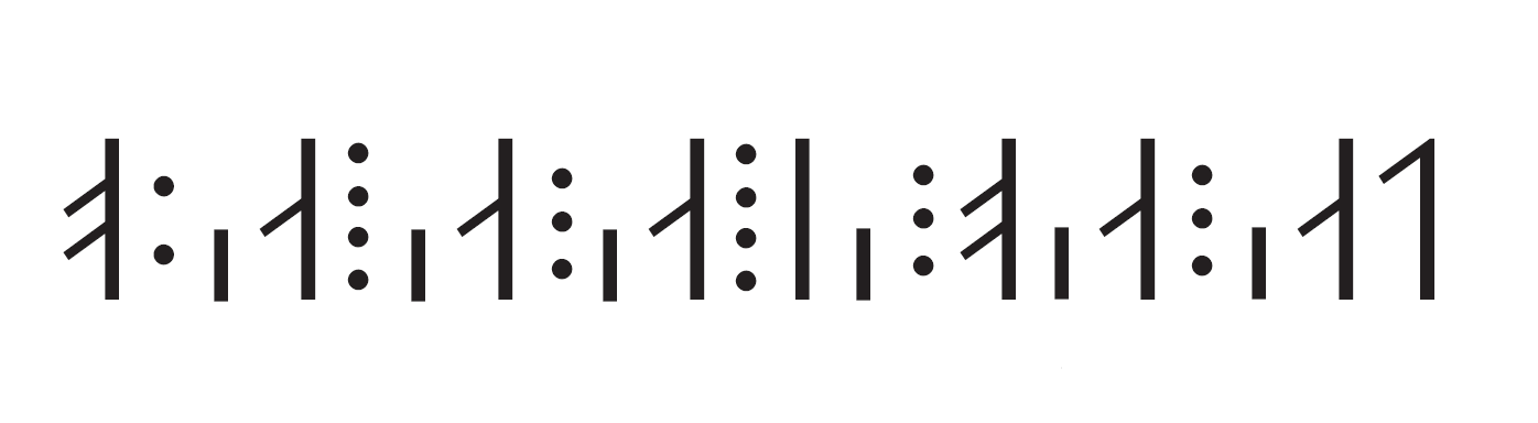 This is a schematic representation of the first sentence of the Viking Age runic inscription on the Greenlandic Narsaq stick. The runes can be read as ą : sa : sa : sa : is : ąsa : sat.